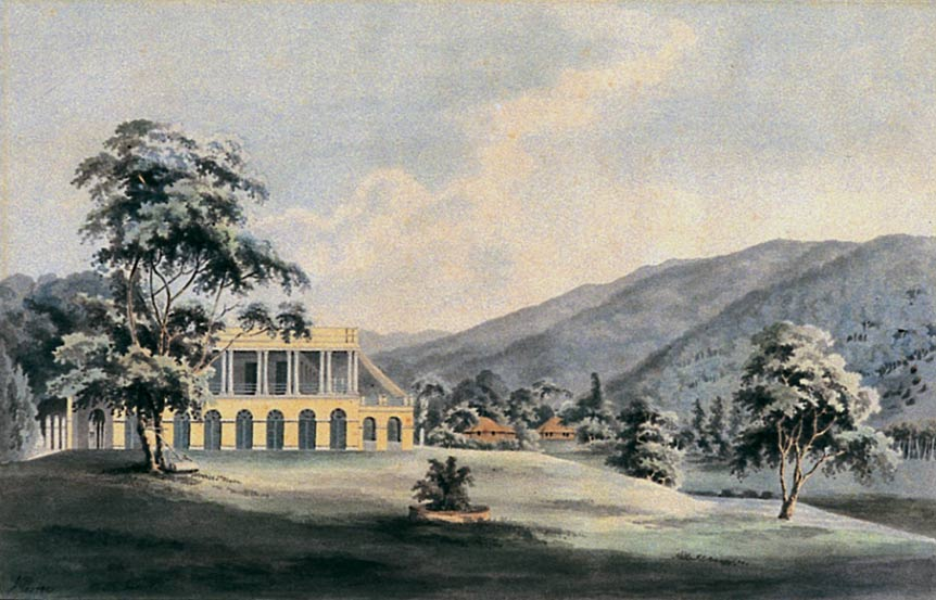 Title: Suffolk House, Penang Media: Watercolour Width: 534 mm (21.0 in) Height: 341 mm (13.4 in) Year of creation: 1811